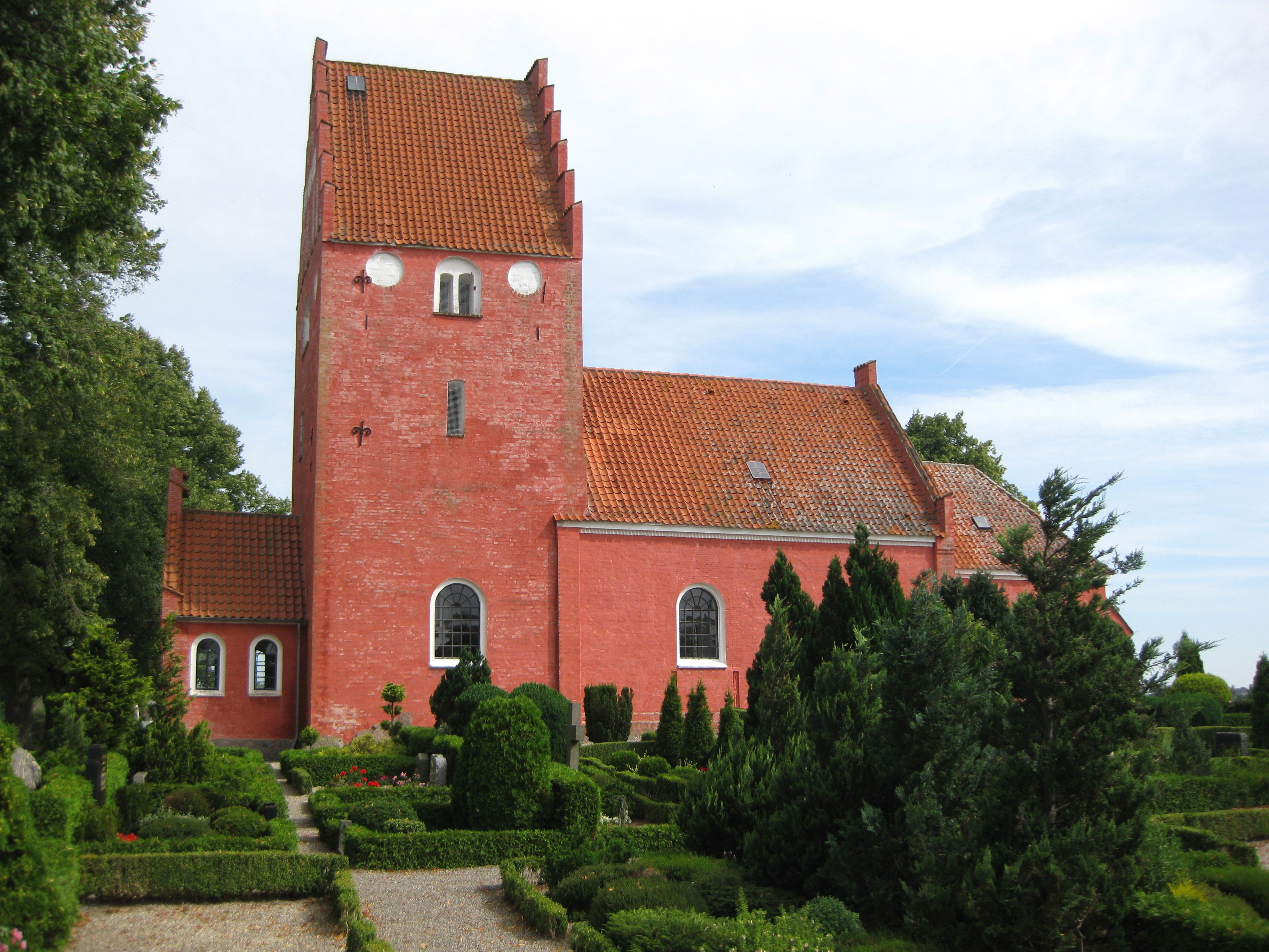 The church "Falkerslev Kirke" in the village "Falkerslev". The village is located on the island Falster in east Denmark.